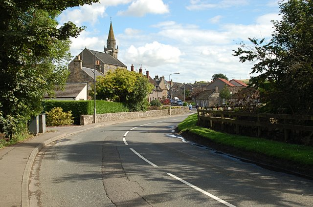 Entering Ceres from the north